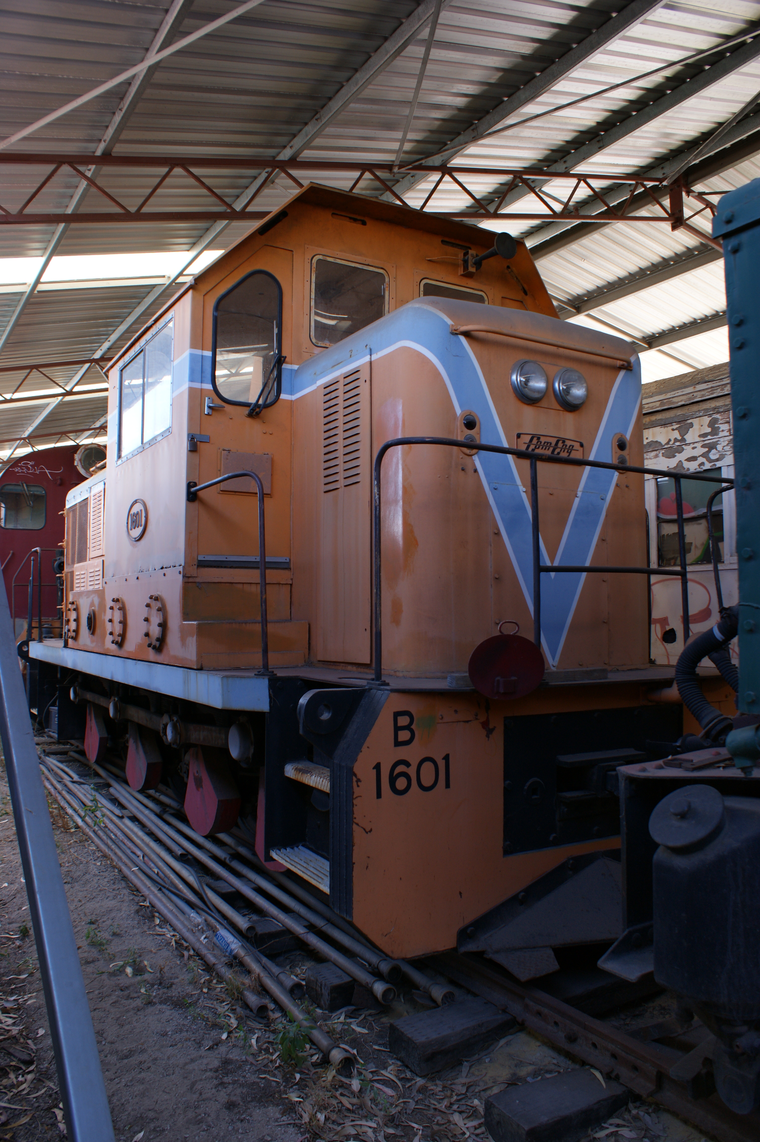 WAGR 3'6" gauge Class "B" 38 ton 0-6-0 diesel hydraulic shunter No.B1601 built by Commonwealth Engineering, Bassendean in 1962 with a 473 hp V12 Cummins VT12B1 engine. Withdrawn by Westrail in 1984 but stored until 1987 when it was sent for preservation to the West Australian Railway Museum, Bassendean, in 1991-2 it was loaned to Goninans for use as a works shunter before returning to the Museum. 2/10.